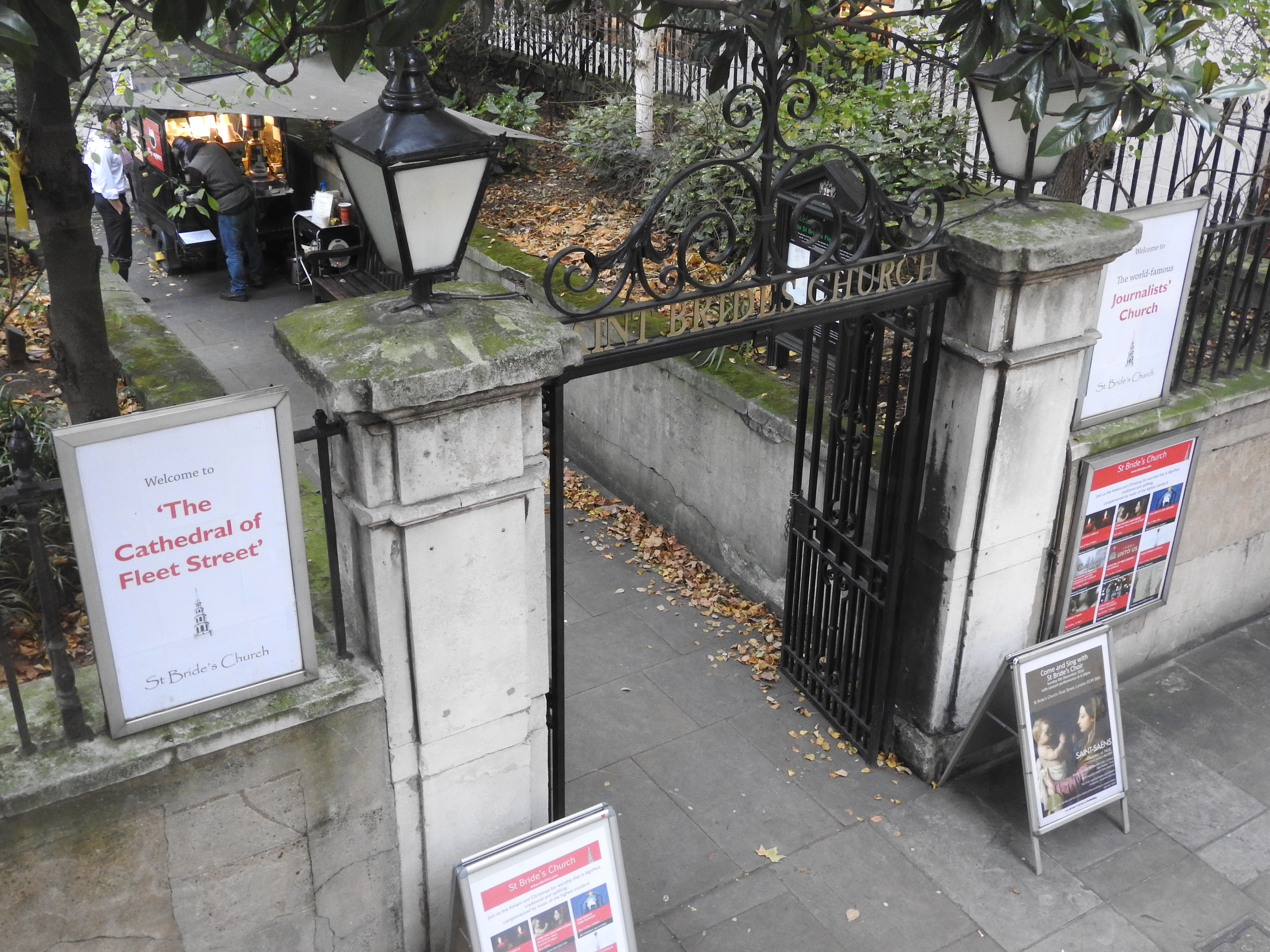 St Brides from Mayday Rooms